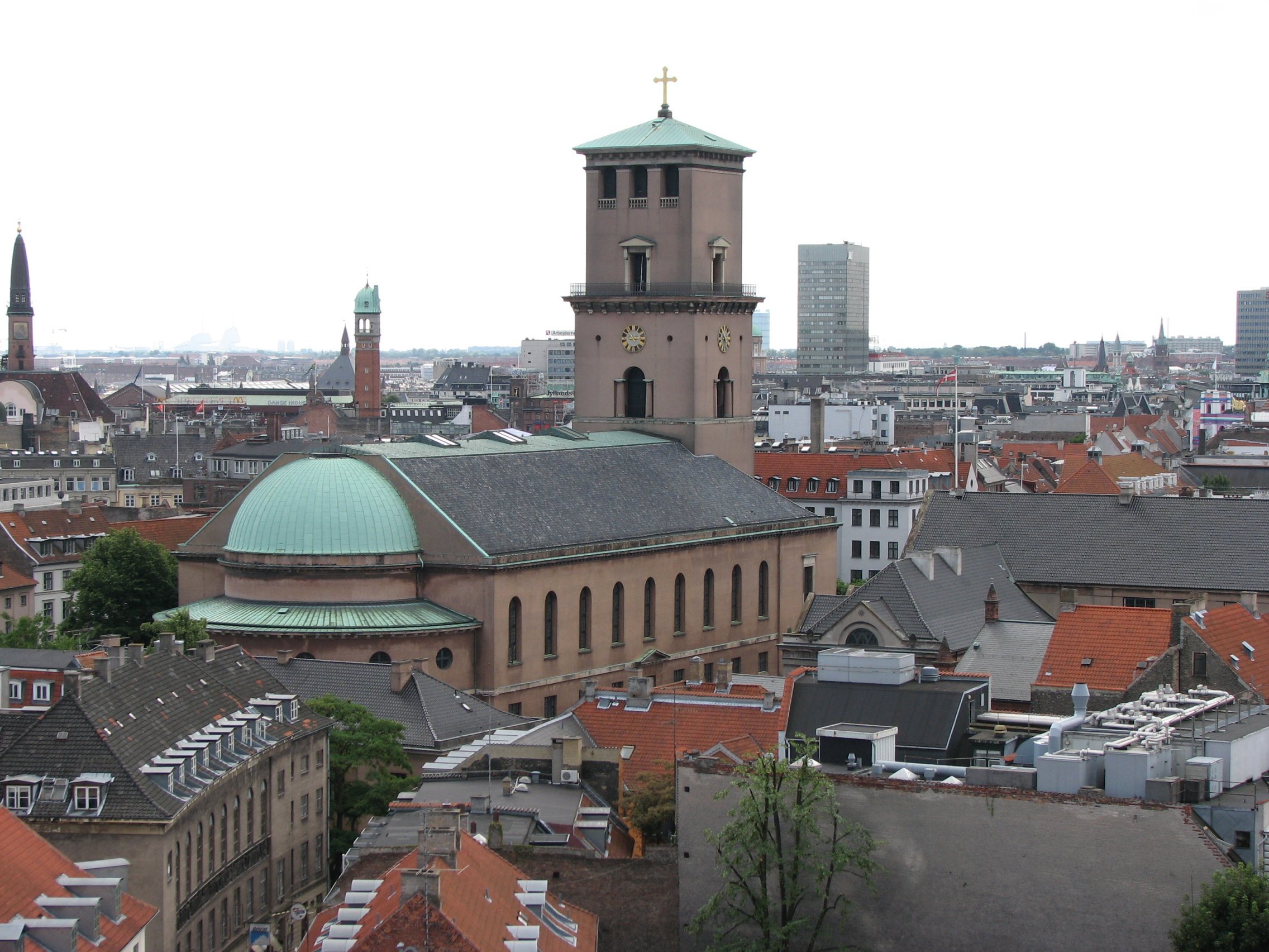 View from Rundetårn, Church of Our Lady (Copenhagen).